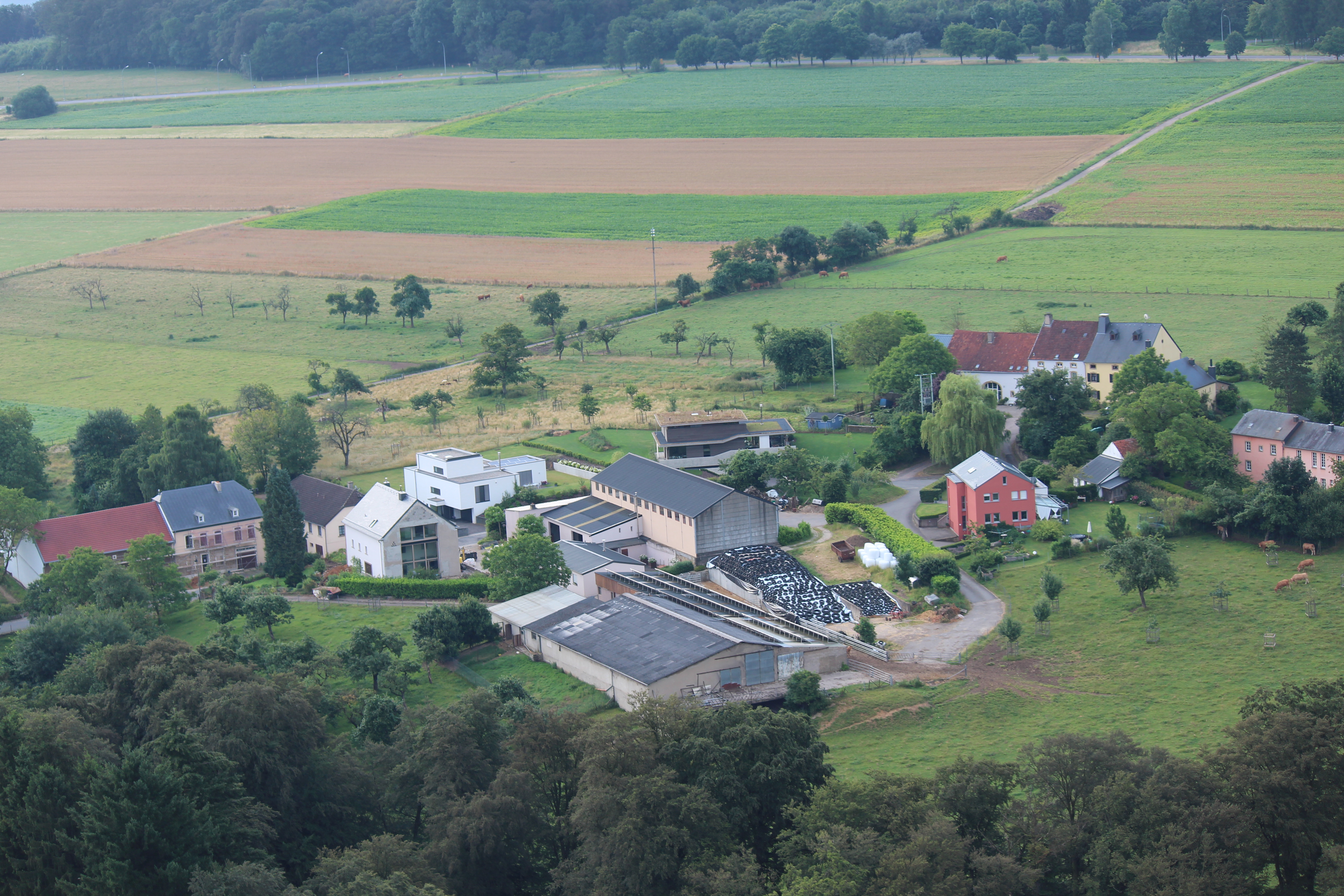 Hersberg, Luxembourg